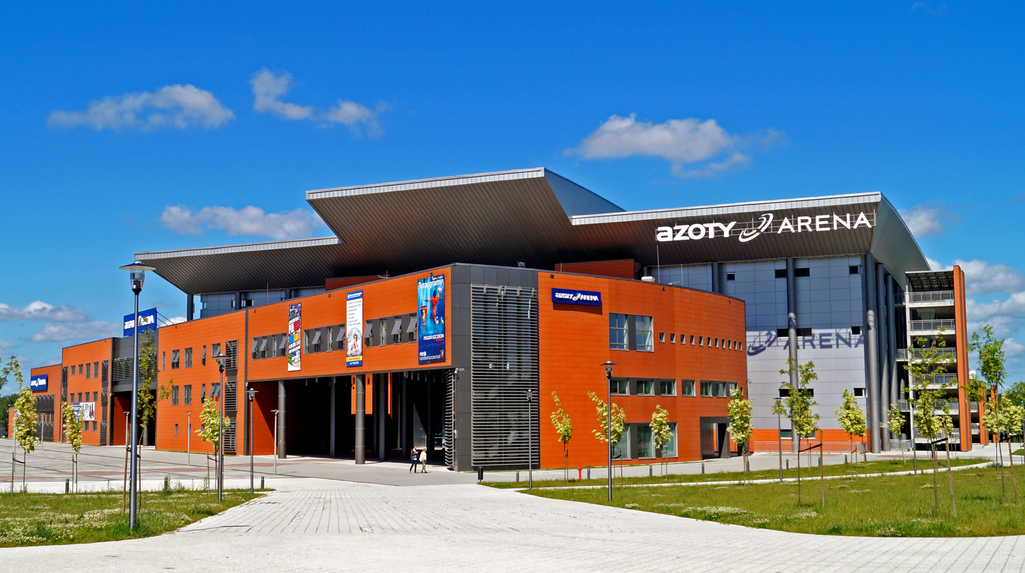 Arena Szczecin (Arena Azoty) in Szczecin, Poland